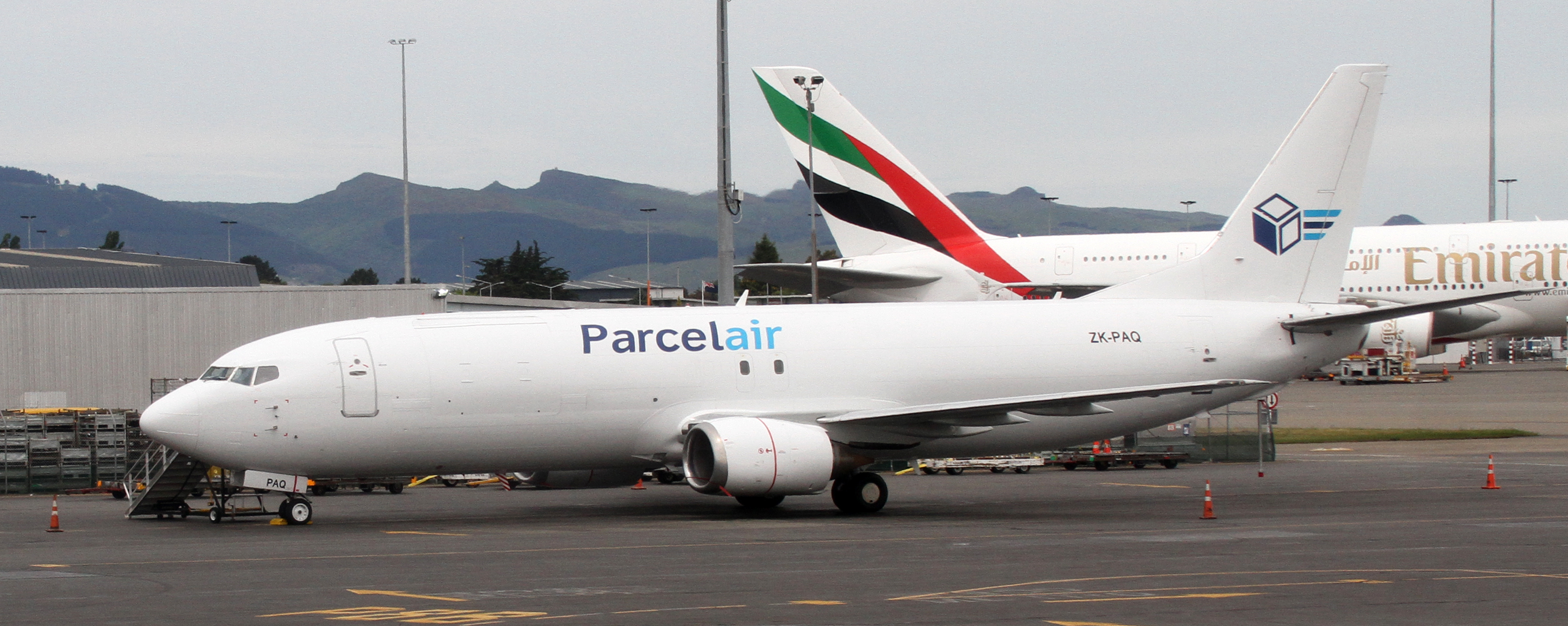 ZK-PAQ Parcelair Boeing 737-476(SF)